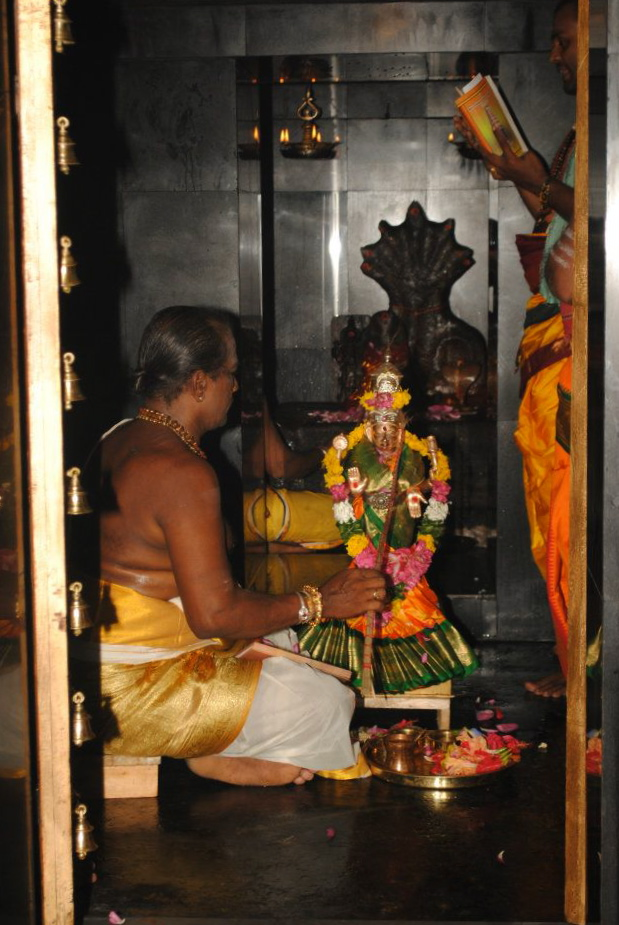 Nainativu moolamurti and ustavamurti pooja